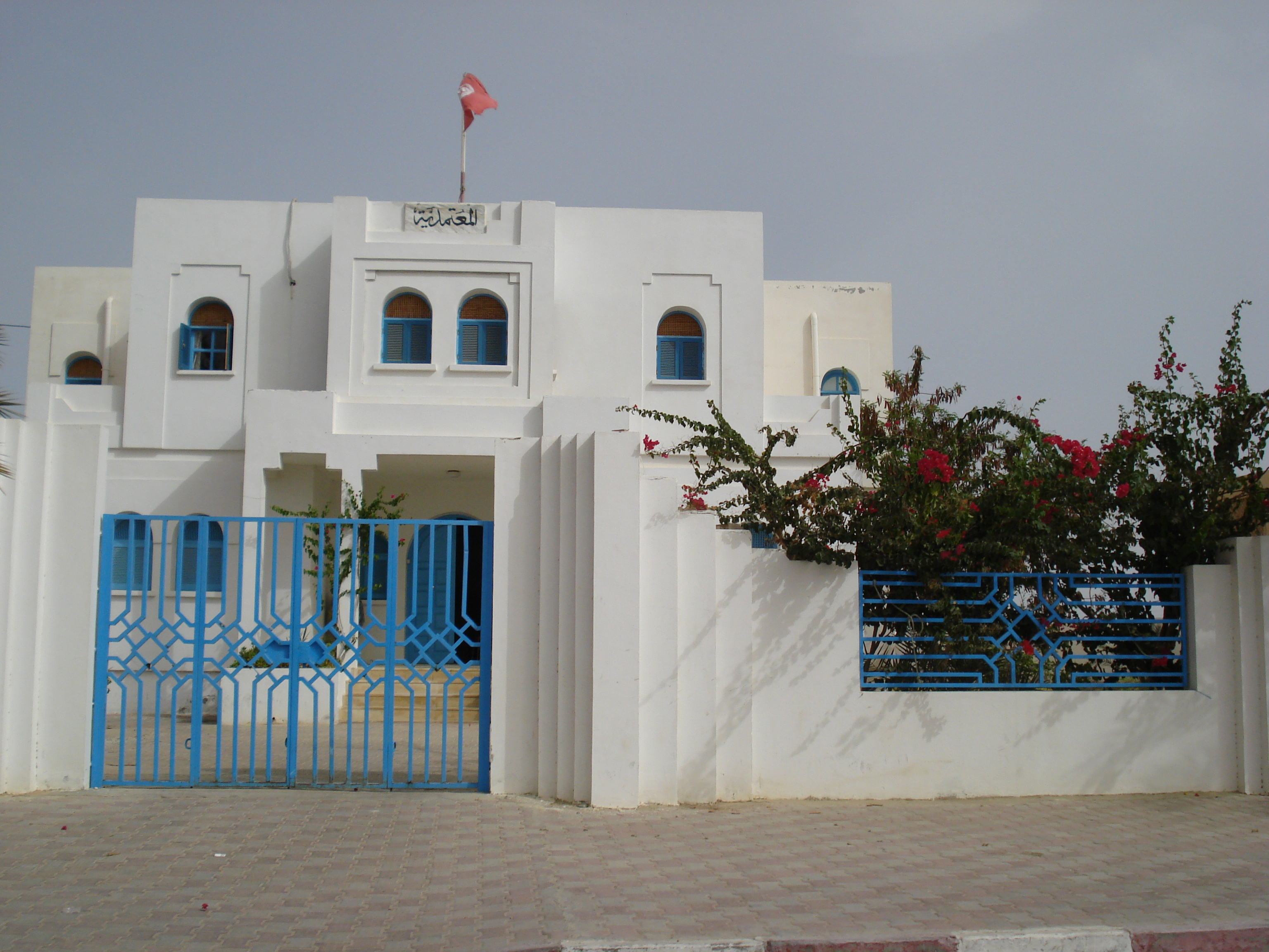 Délégation de Djerba Adjim, Djerba, Tunisia.